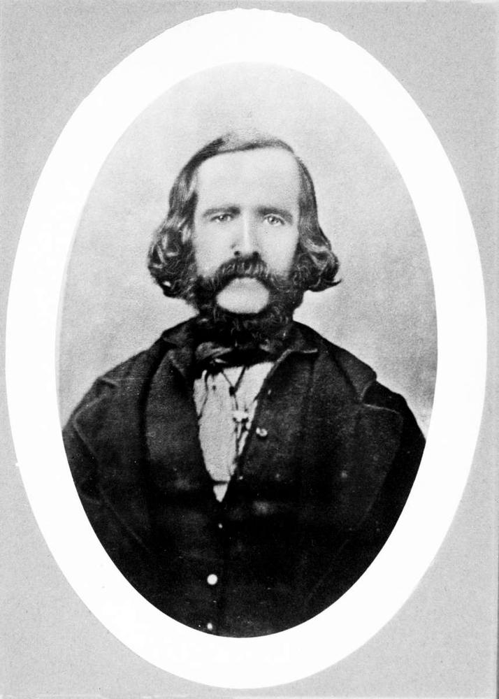 Portrait of Donald McLean, a Scottish fur trader and explorer of the Hudson's Bay Company.